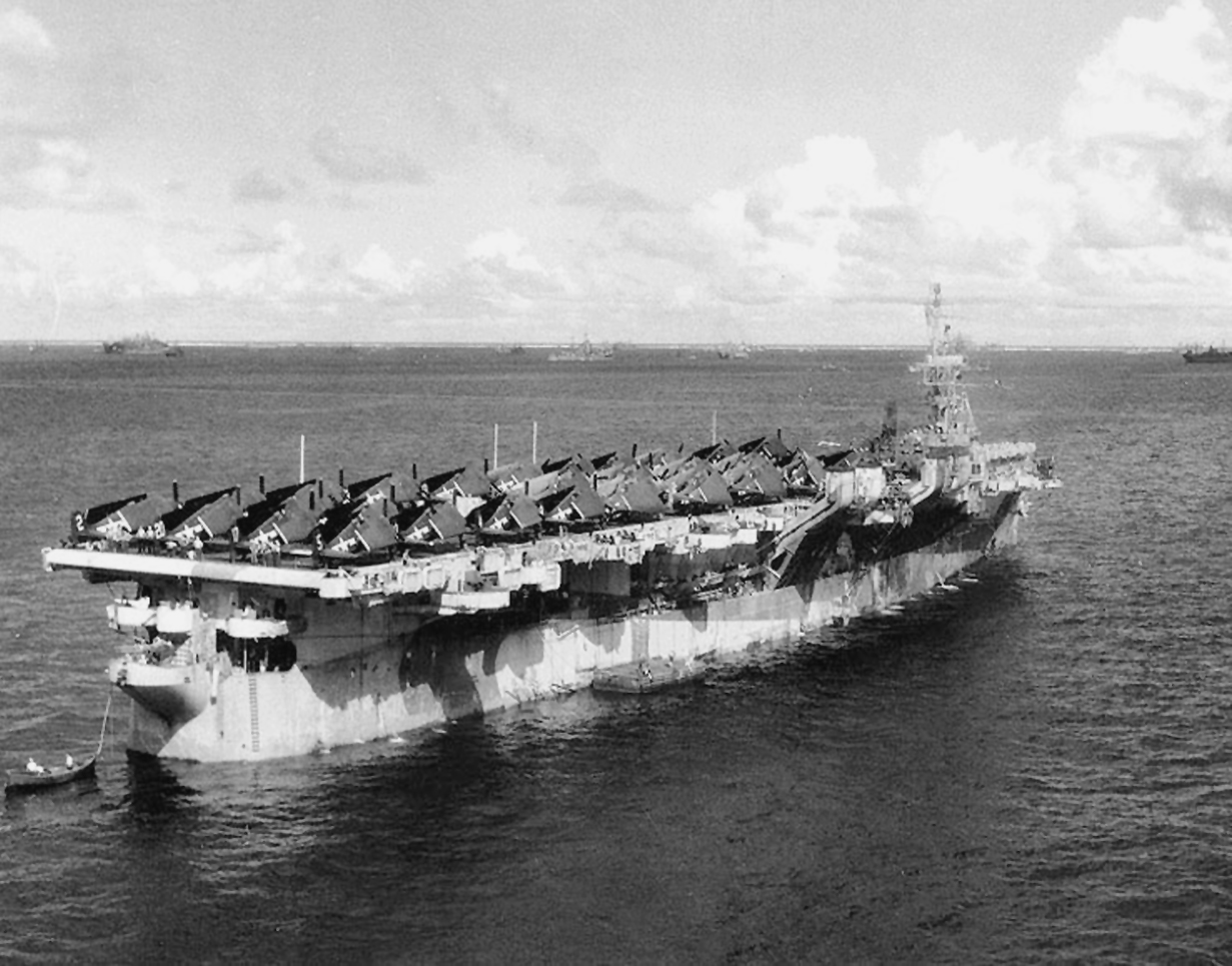 The U.S. Navy light aircraft carrier USS Monterey (CVL-26) at anchor in the Ulithi Atoll, Caroline Islands, on 24 November 1944. Note F6F-5 fighters of Carrier Air Group 28 (CVG-28) parked aft on her flight deck.